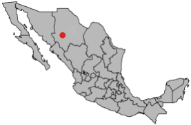 Location map of Creel — a city in Chihuahua, México.